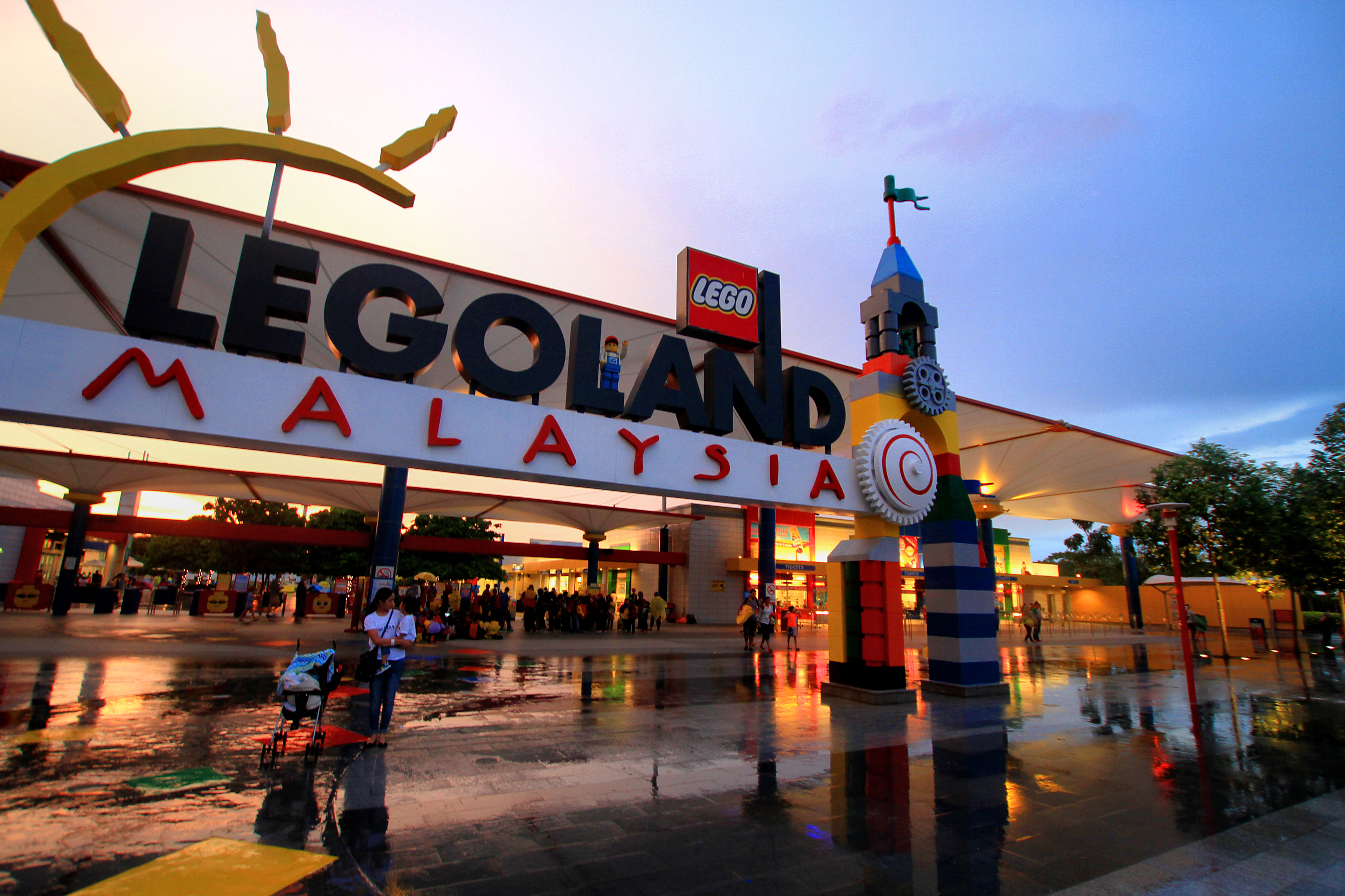 Legoland Malaysia Resort in Nusajaya, Johor, Malaysia.